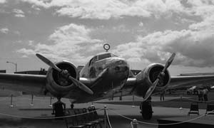 Linda Finch's Electra 10A on the tarmac for viewing.